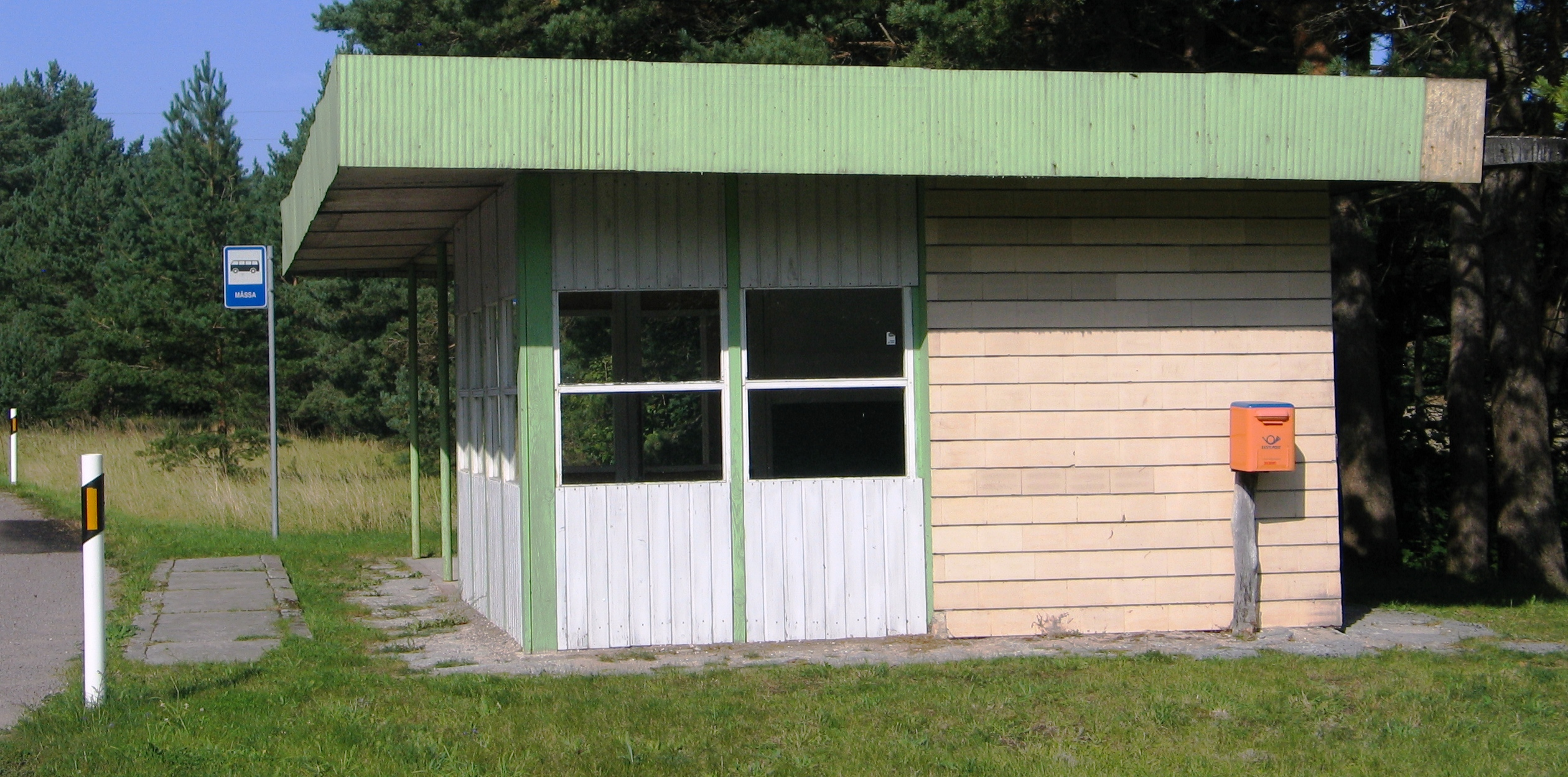 A bus stop in Mässa village, Torgu parish, Saare county